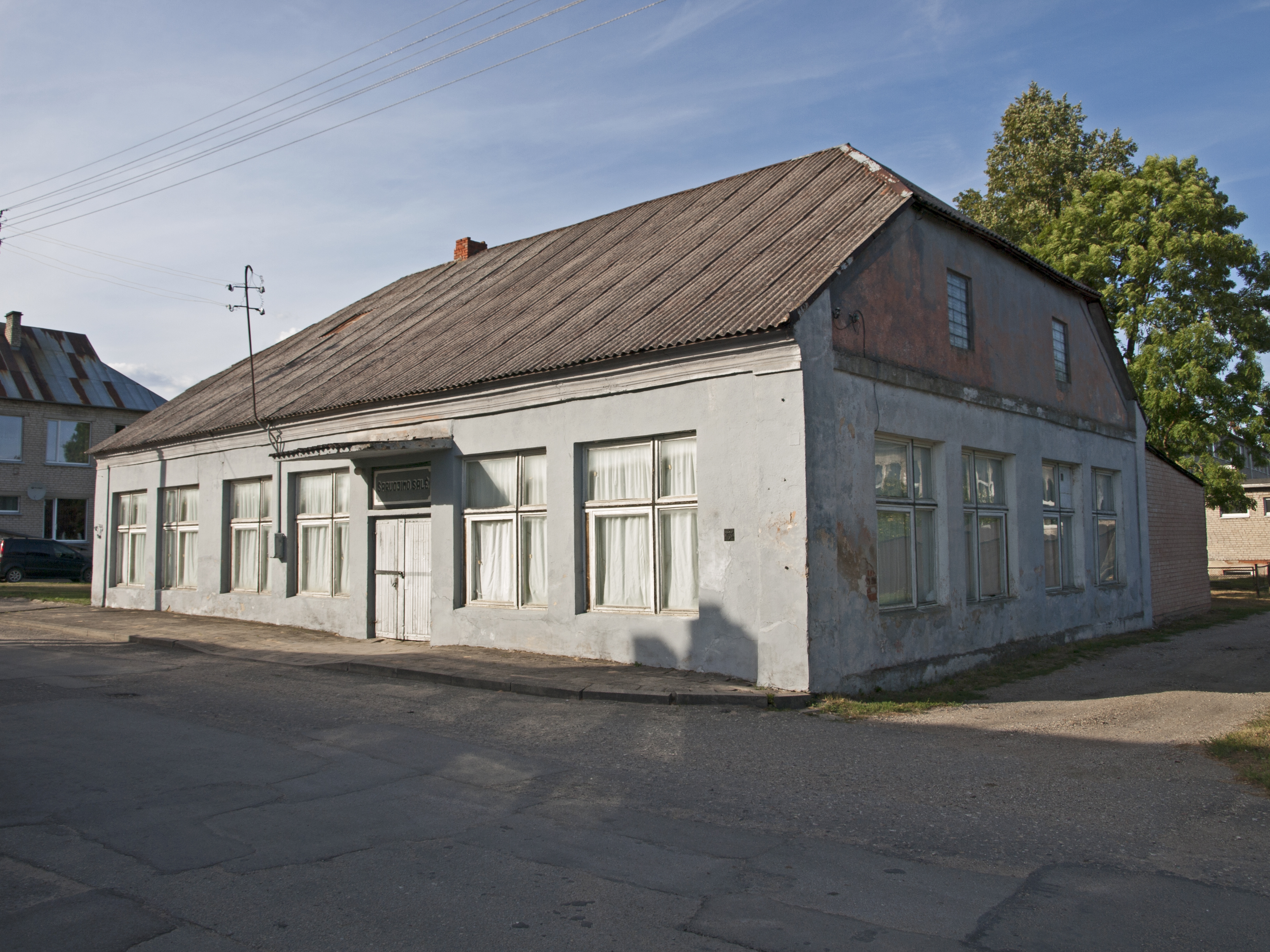 The Great Beit Midrash, Pirties 3, Vabalninkas